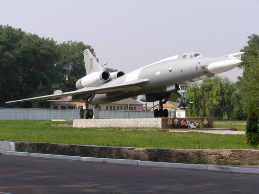 Ozernoye, Zhytomyr oblast, a flyers monument (Tu-22) near the entrance to the garrison